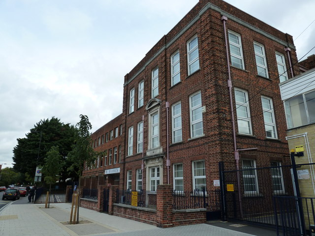 School in Carlton Road